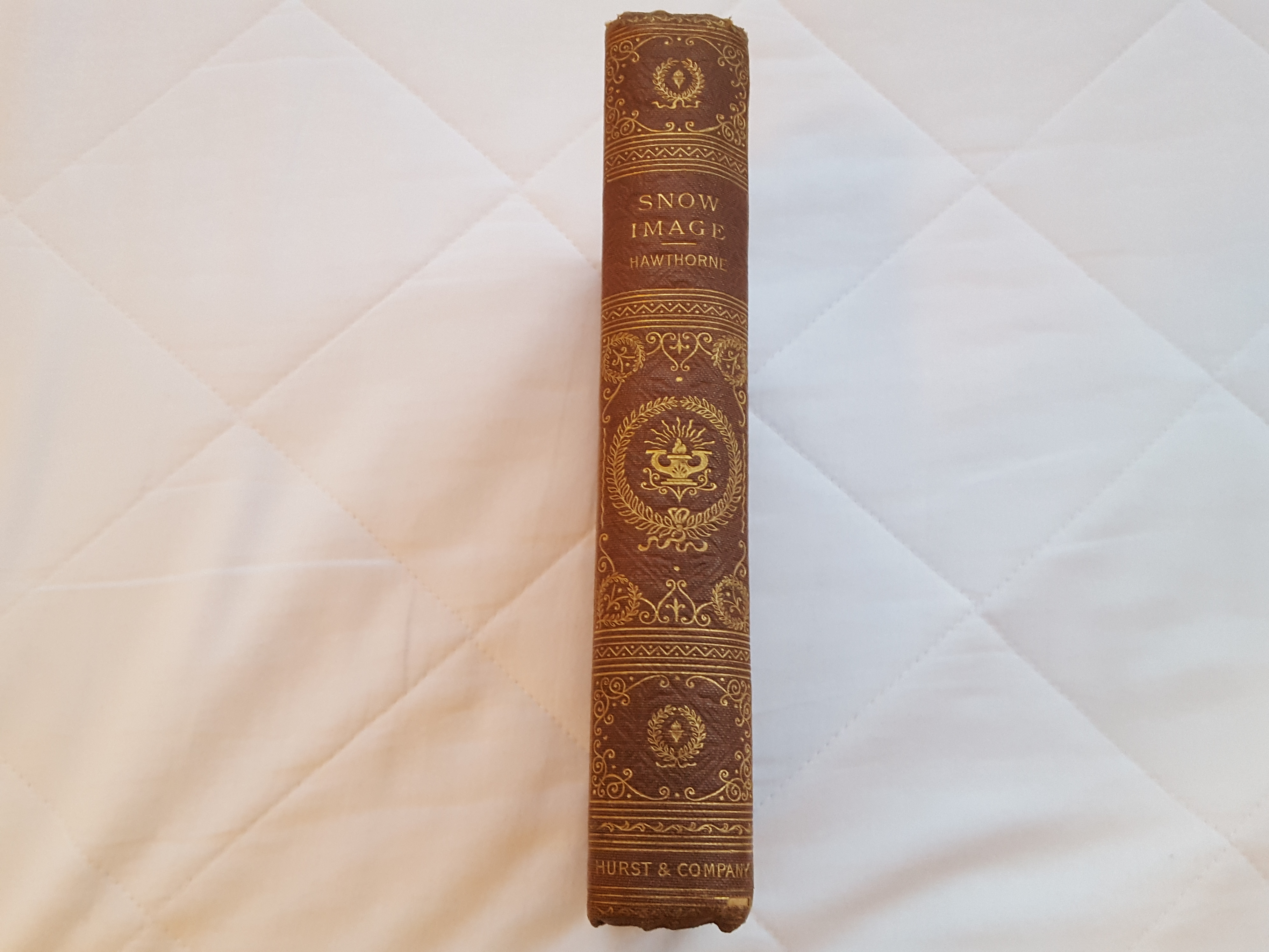 First Edition printed in 1851